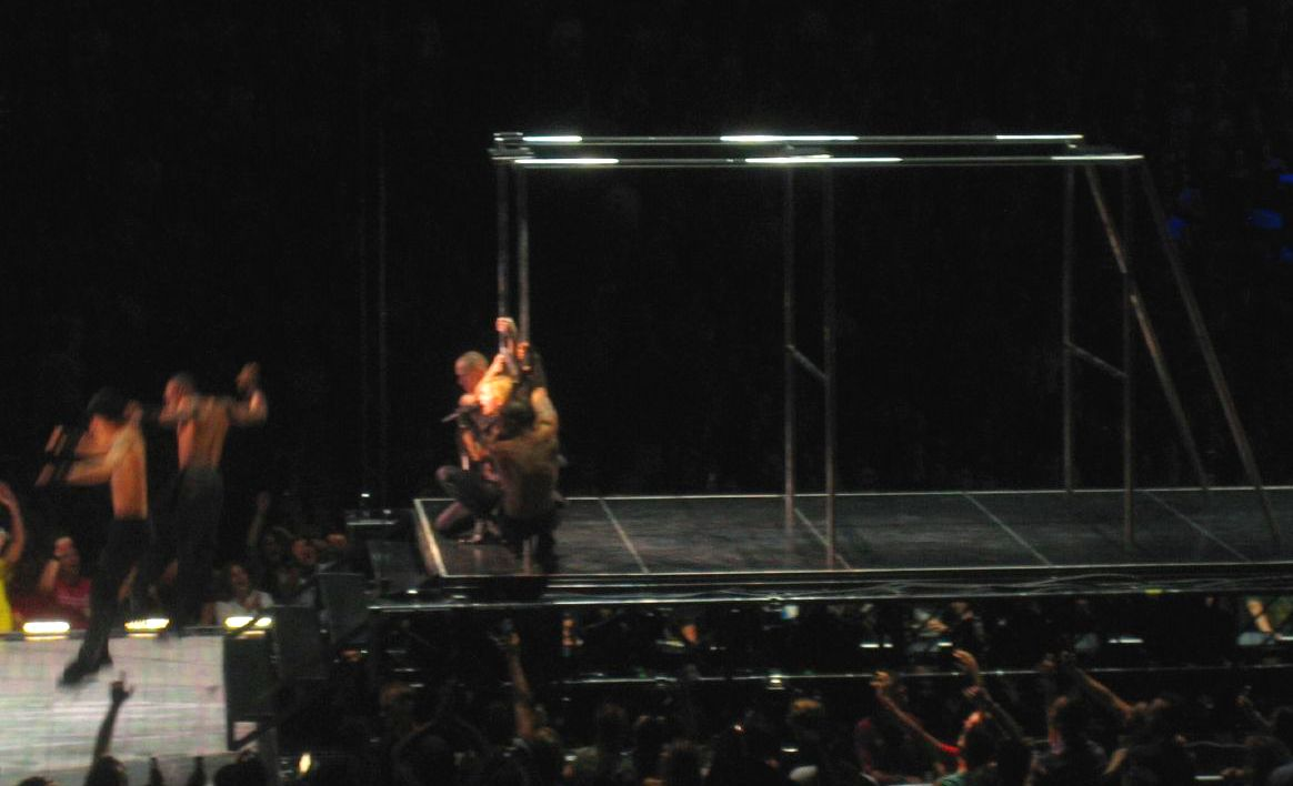 Madonna performing "Jump" on Confessions Tour